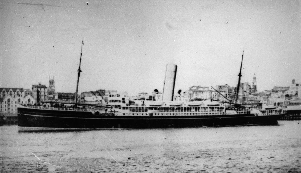 Huddart Parker's 5,828 GRT passenger ship Ulimaroa, built by Gourlay Bros in Dundee in 1907 and scrapped in 1929